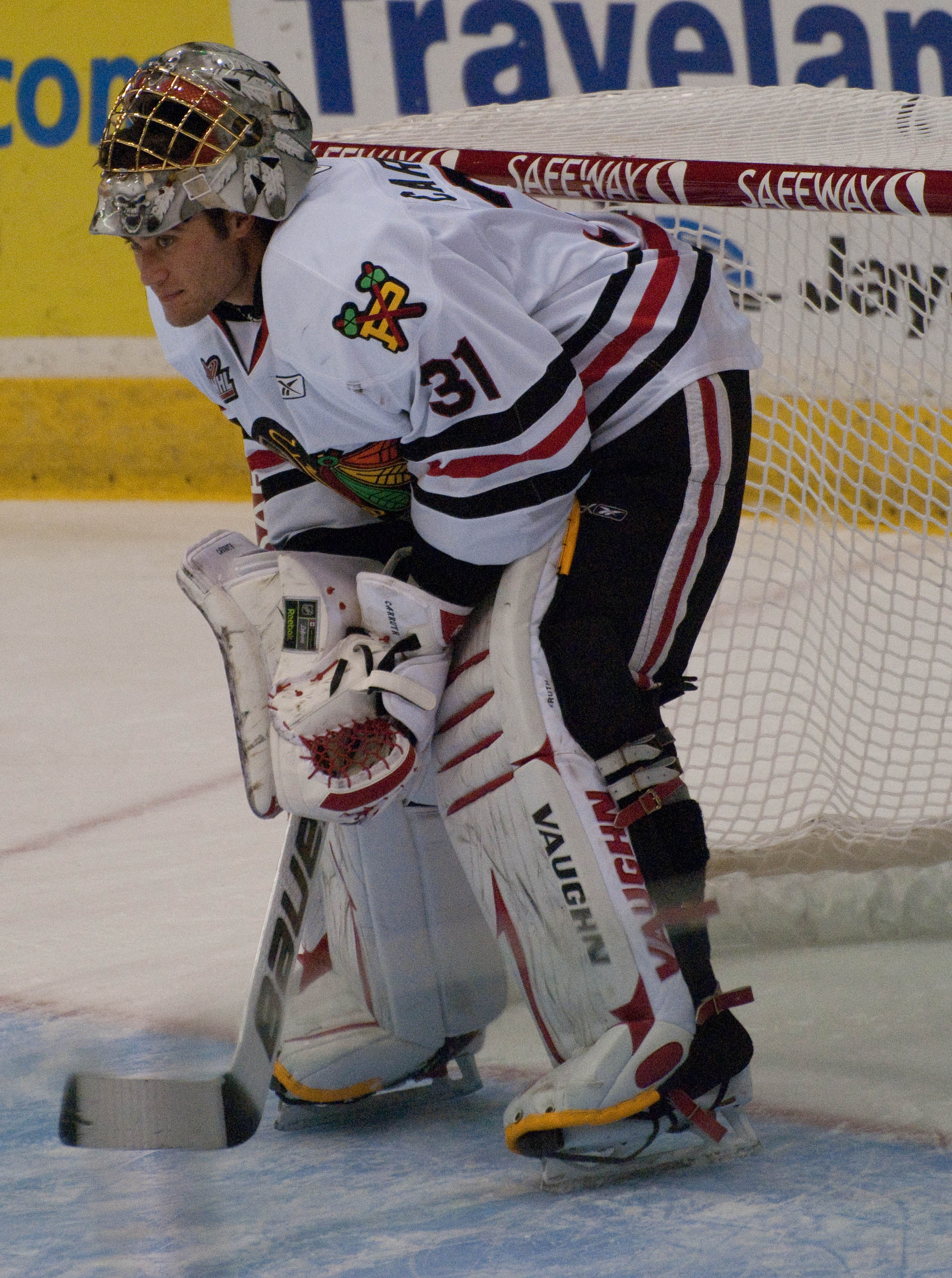 Mac Carruth